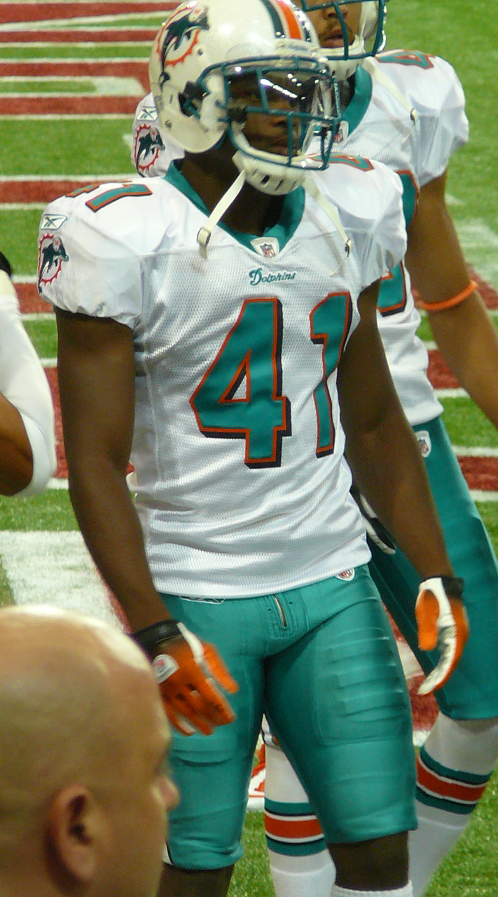 If used somewhere other than Wikipedia, Nelson, by name.